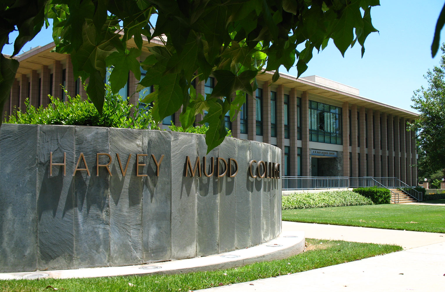 Entrance to Harvey Mudd College on Dartmouth Avenue, F.W. Olin Building in background.